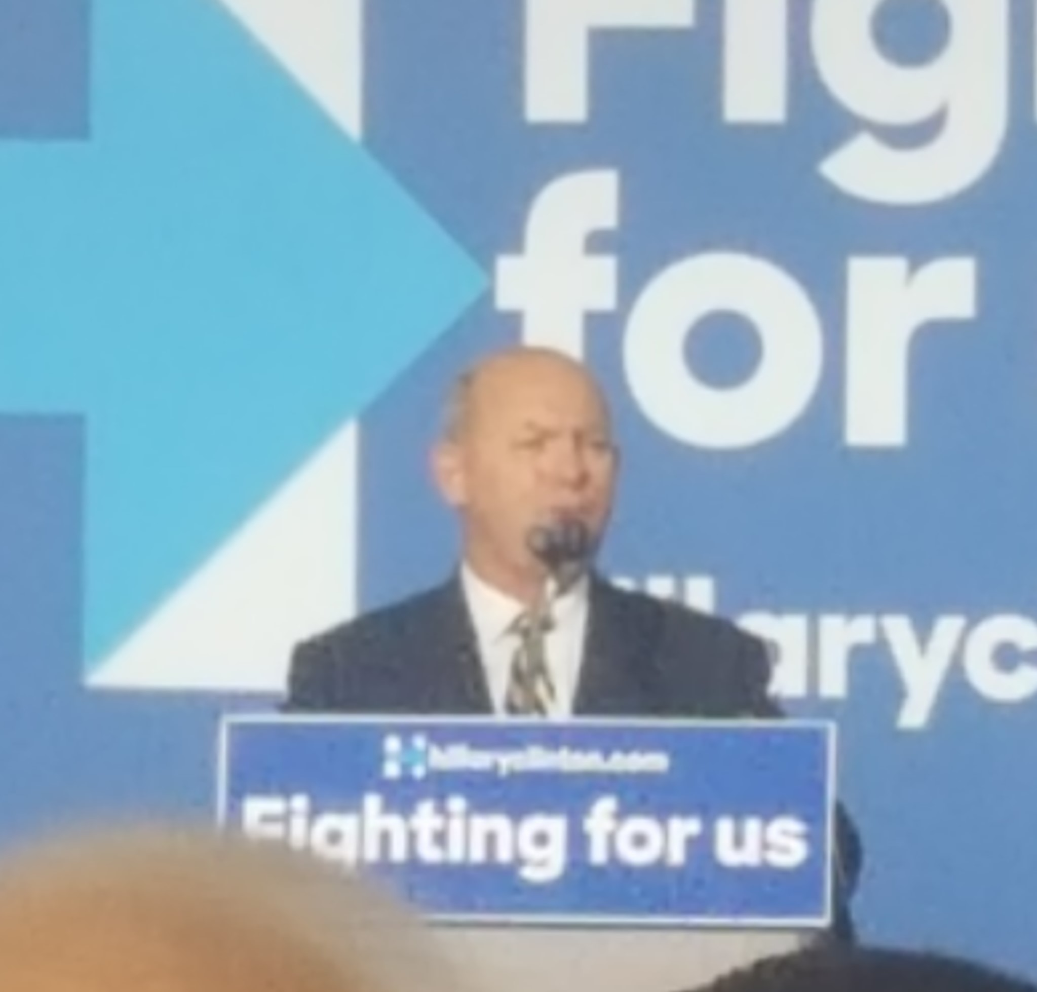 Tom DiNapoli speaking at the Bill Clinton rally in Binghamton, April 2016. The event was held as part of Hillary Clinton's campaign in New York.